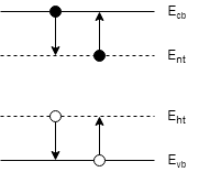 Electron are represented as filled circles whereas holes are represented as empty ones.